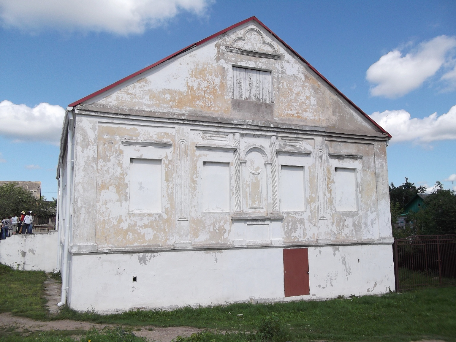 Yeshybot in Valozhyn, Belarus